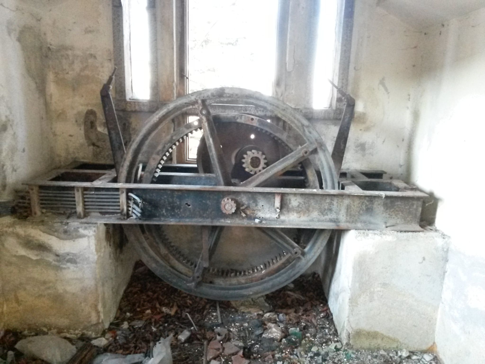 Destroyed deflection pulley in the mountain station of the Experimental ropeway Batschuns (municipality of Zwischenwasser) by Karl PETER (ca. 683 - 825 m.ü.A.), existed from 1947 to 1962/63.